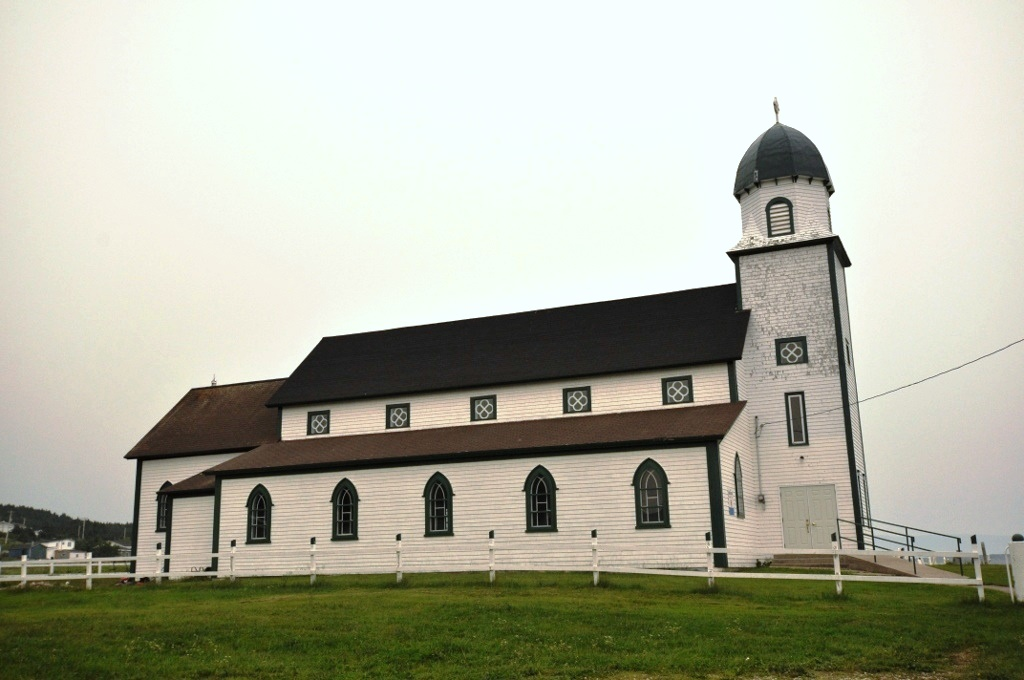 Holy Trinity Anglican Church Registered Heritage Structure, Codroy, Newfoundland.